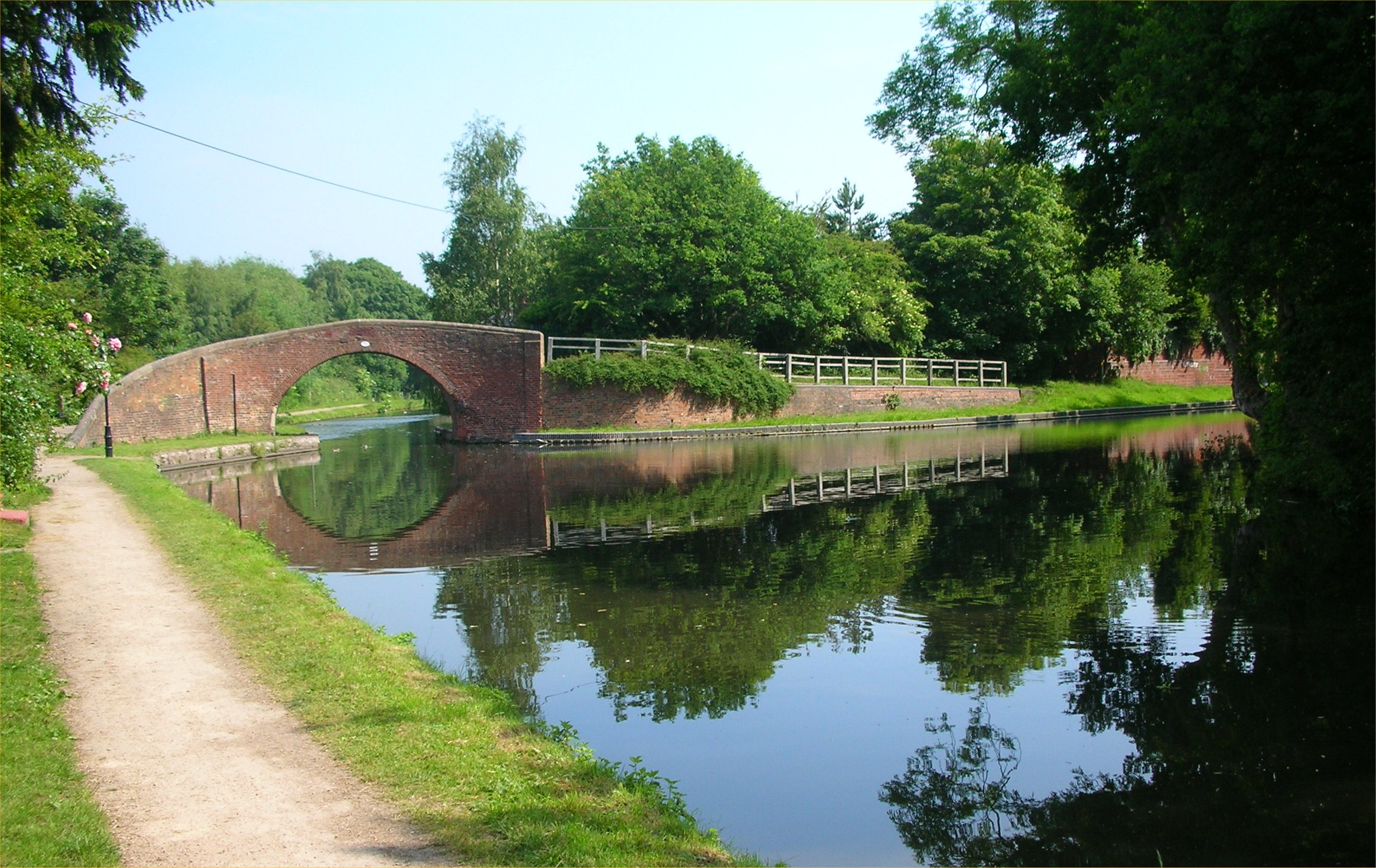 Kings Norton Junction near Kings Norton, Birmingham, England, where the Stratford-upon-Avon Canal terminates and meets the Worcester and Birmingham Canal. Photographed by me 11 June 2007. Oosoom